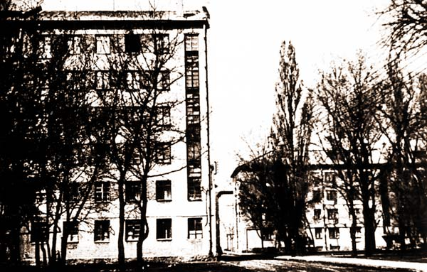 Buildings in KhTZ village with different number of floors